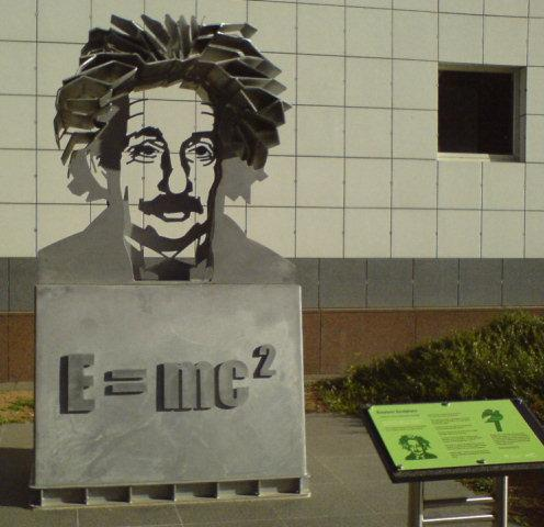 Sculpture of Albert Einstein, and E=mc2, at Questacon, Australia's national science centre, in Canberra, Australian Capital Territory; erected during the World Year of Physics 2005.